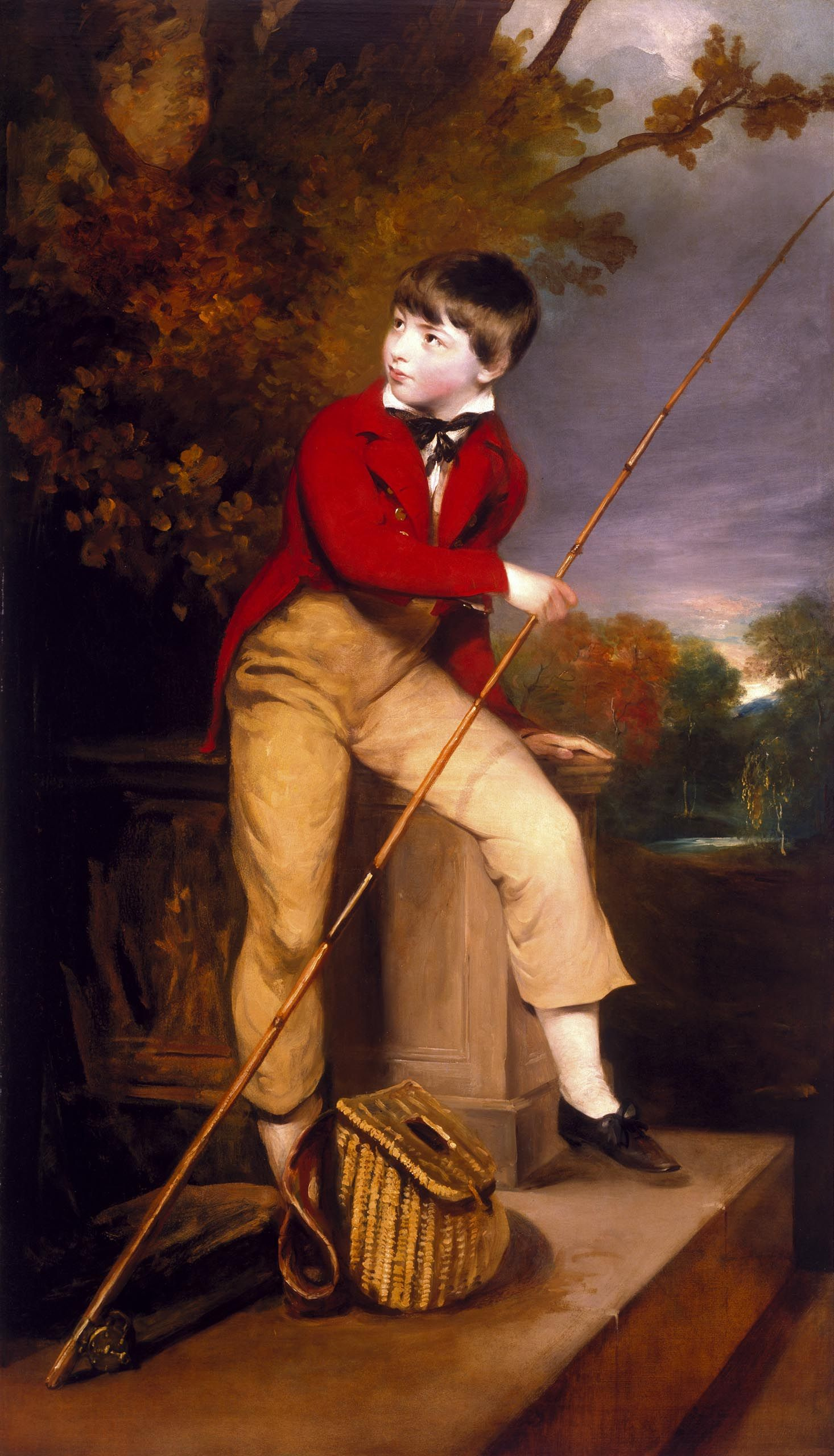 Portrait of Master Roger Mainwaring